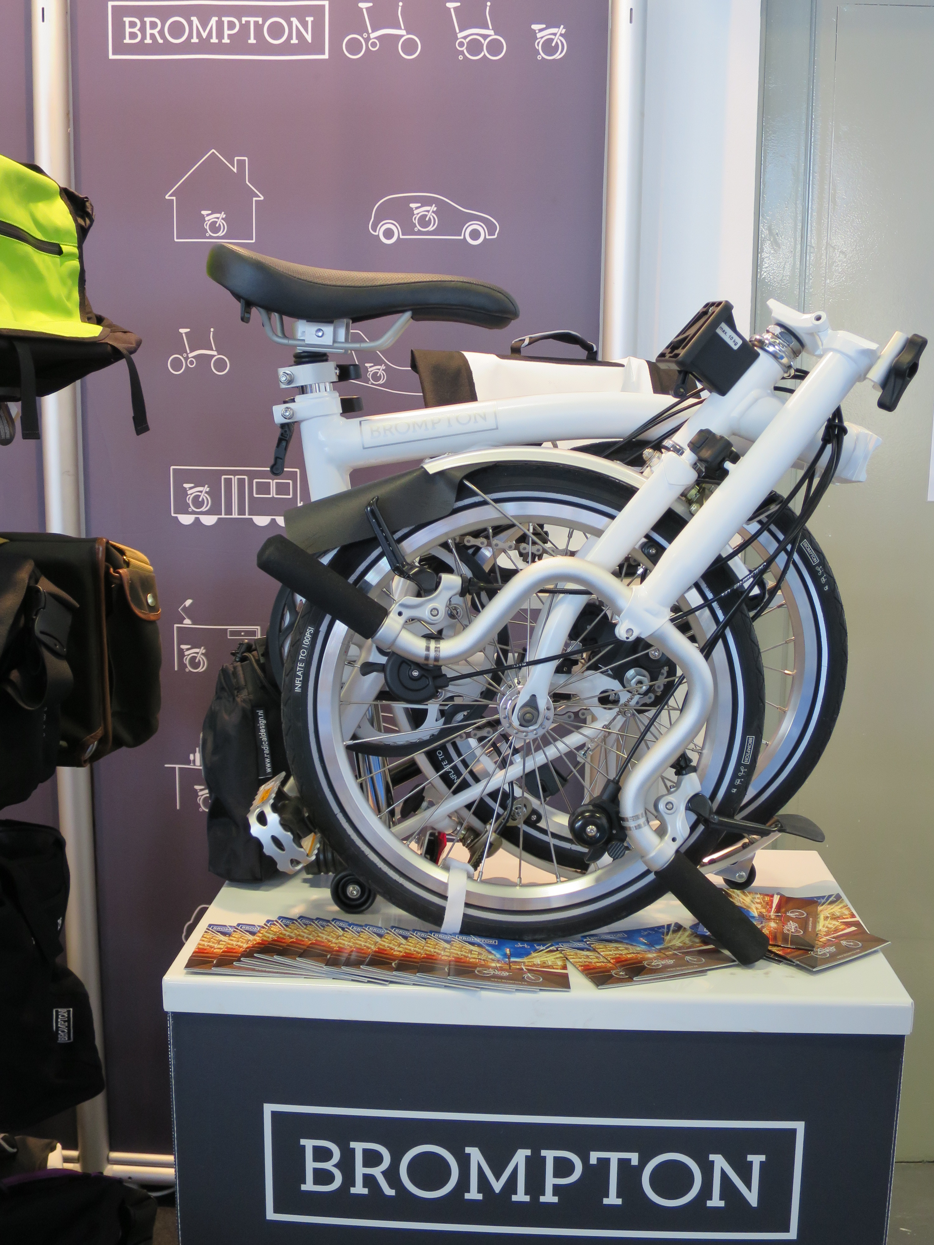 Brompton VELO BERLIN 2017.